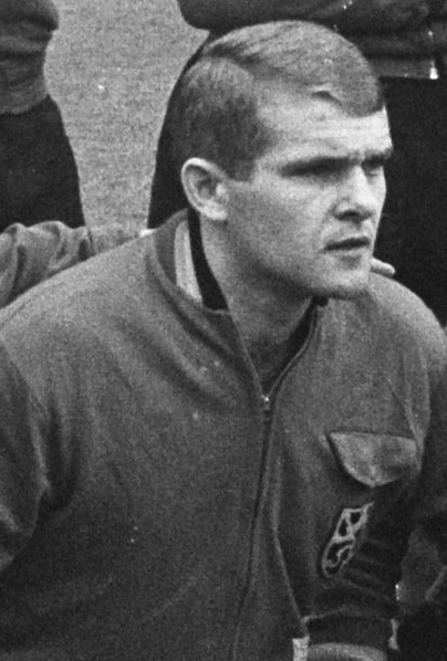 Jan Verheyen, before the international game Netherlands vs. Belgium, April 17, 1966.